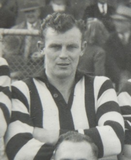 Photograph of Bill Dalkin from 1944-1945